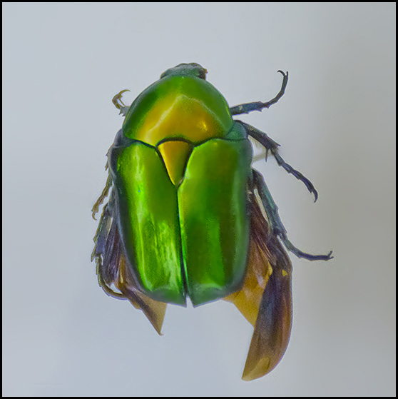 Protaetia cuprea, Steinhardt Museum of Natural History, Tel Aviv University, Israel